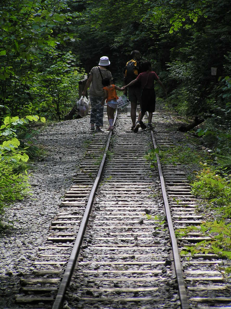 Rail trail-Kiso shinrin-Railway,木曾森林鉄道廃線跡